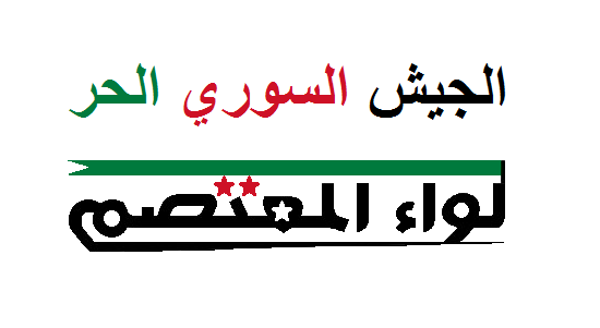 Flag of the al-Moutasem Brigade, a Free Syrian Army group in northern Aleppo.